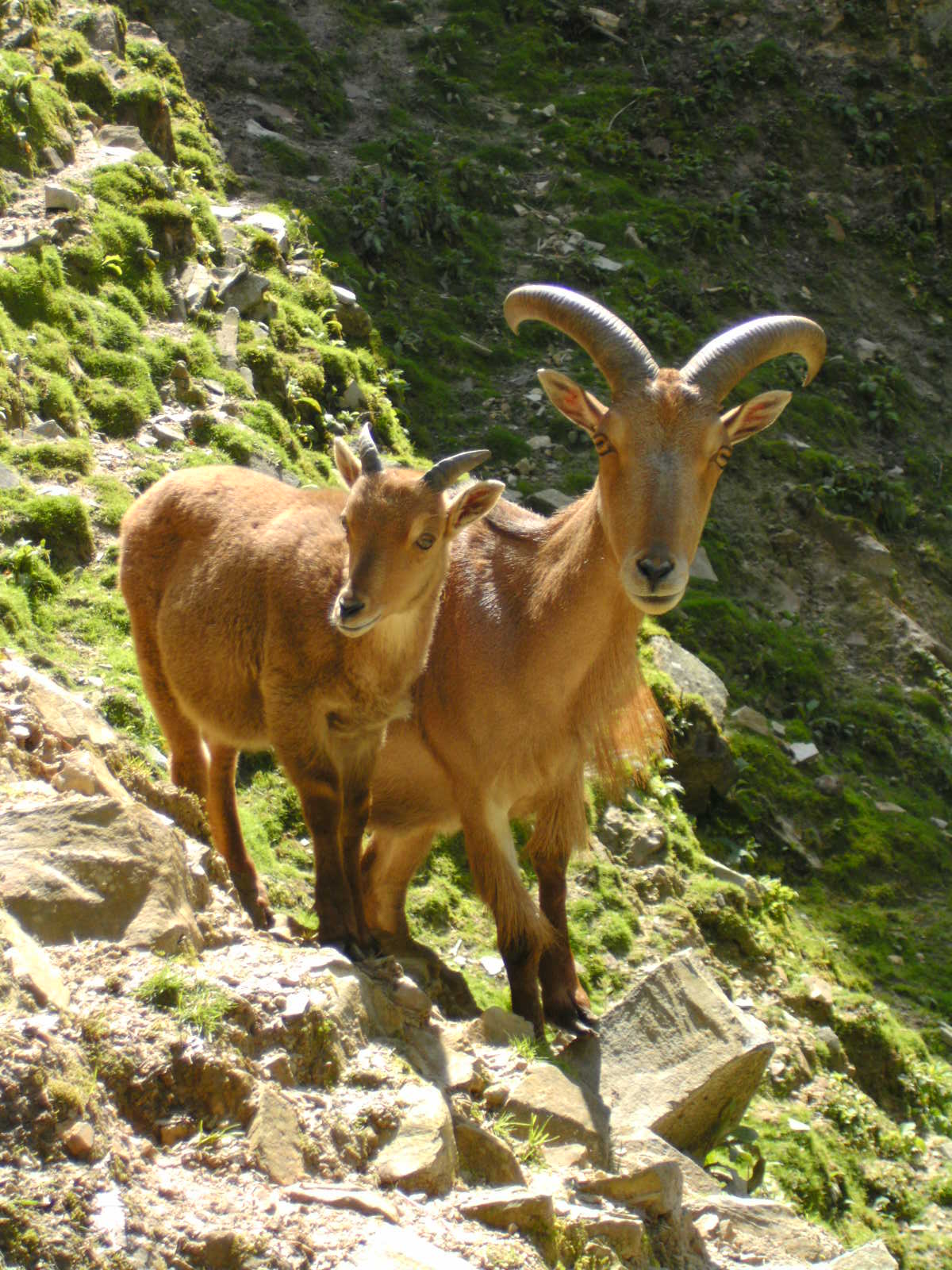 Barbary sheep (Ammotragus lervia) at Jurques zoo, Basse-Normandie, France.